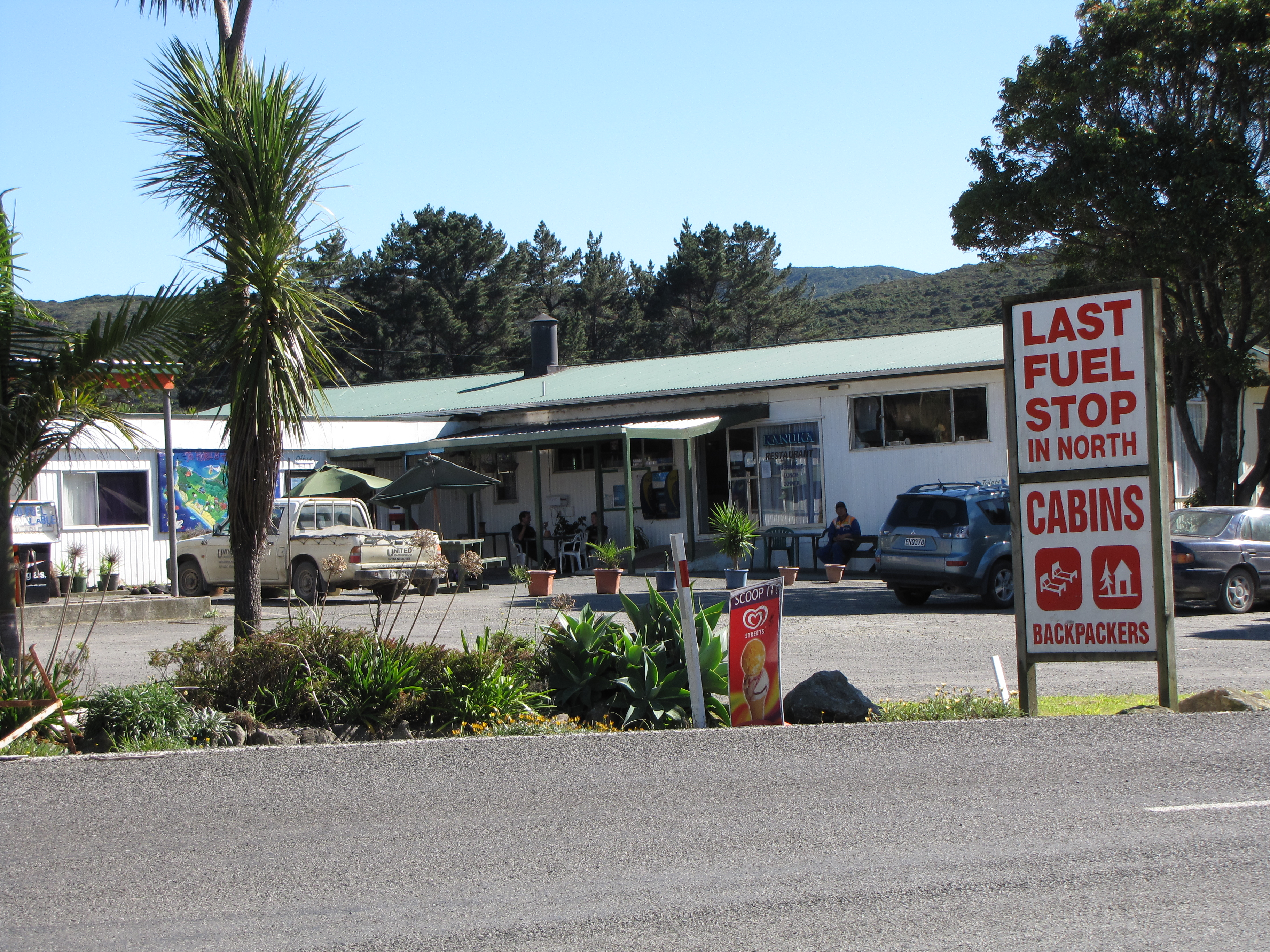 Waitiki Landing is the second most-northerly community in New Zealand.